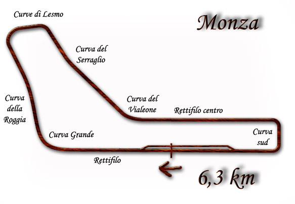 Diagram of the Autodromo Nazionale di Monza after modified in 1950, hosted the Formula One World Championship Italian Grand Prix from 1950 to 1954.